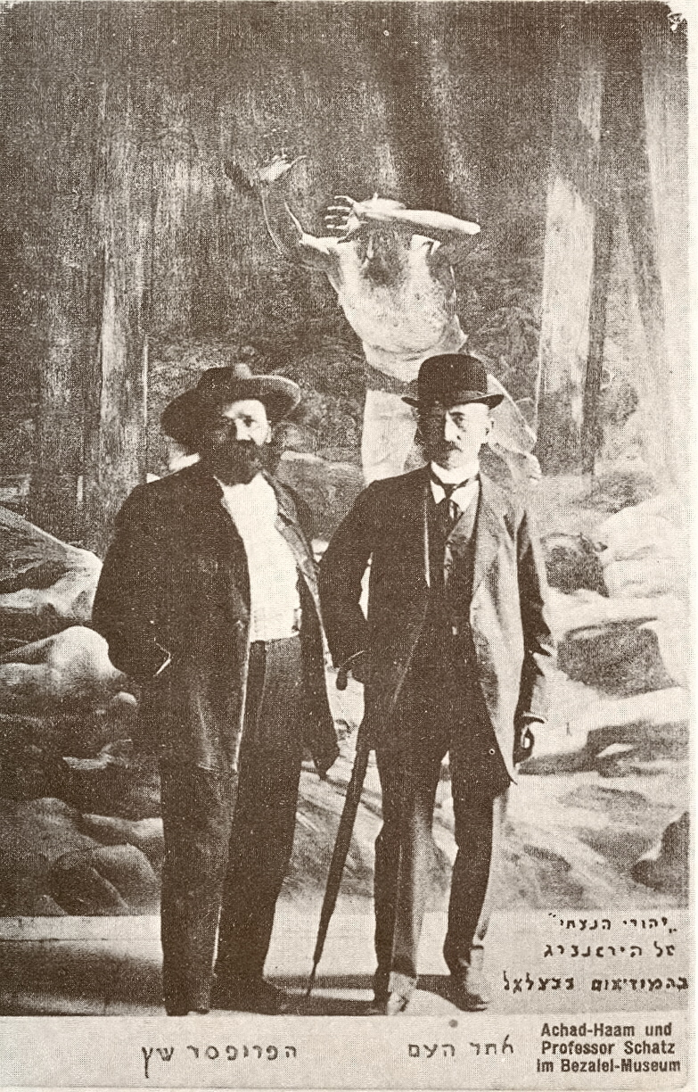 "Achadd Haam and Professor [Boris] Schatz in Bezalel-Museum" (1911?) on the back Samuel Hirszenberg's painting.